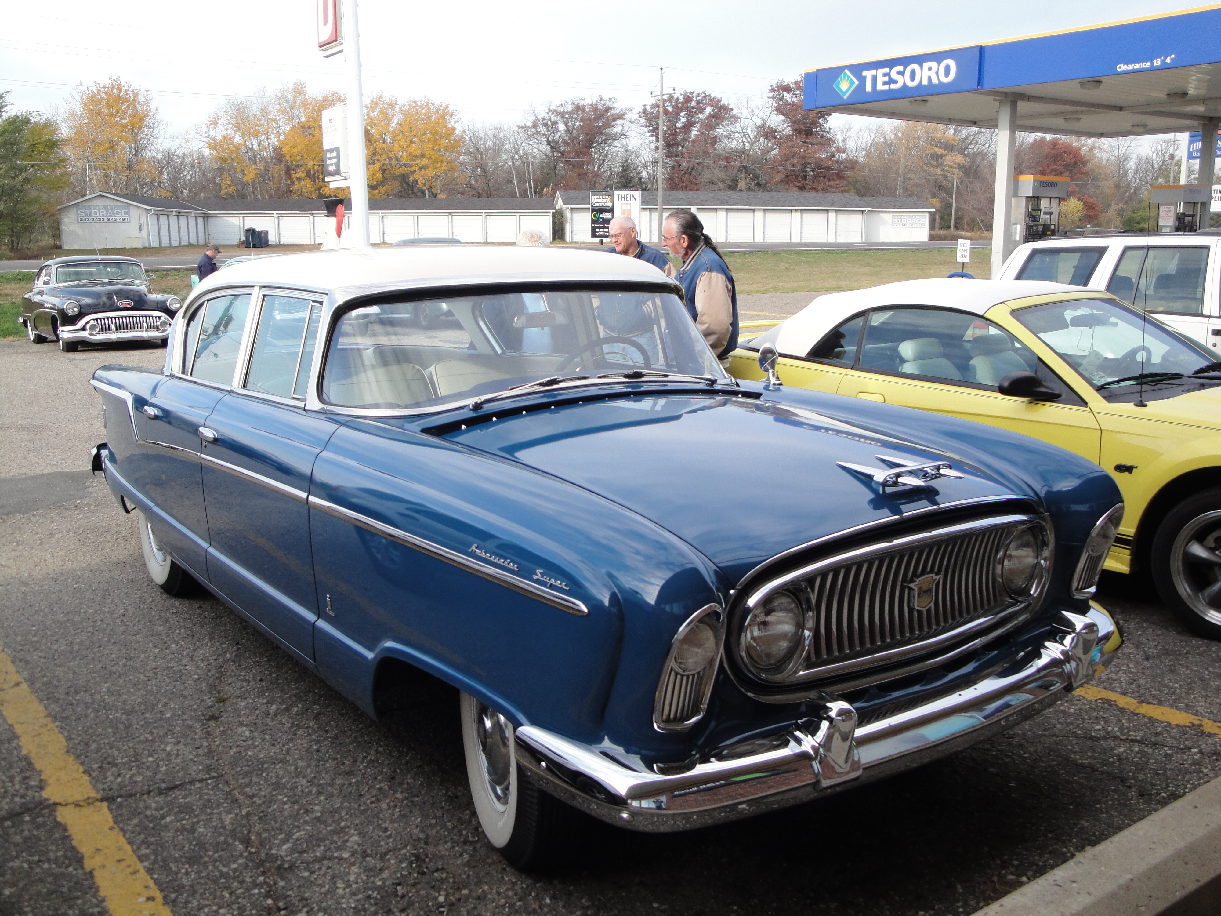 1956 Nash Ambassador Super. Willmar Car Club Car Buffs' Breakfast November 2011